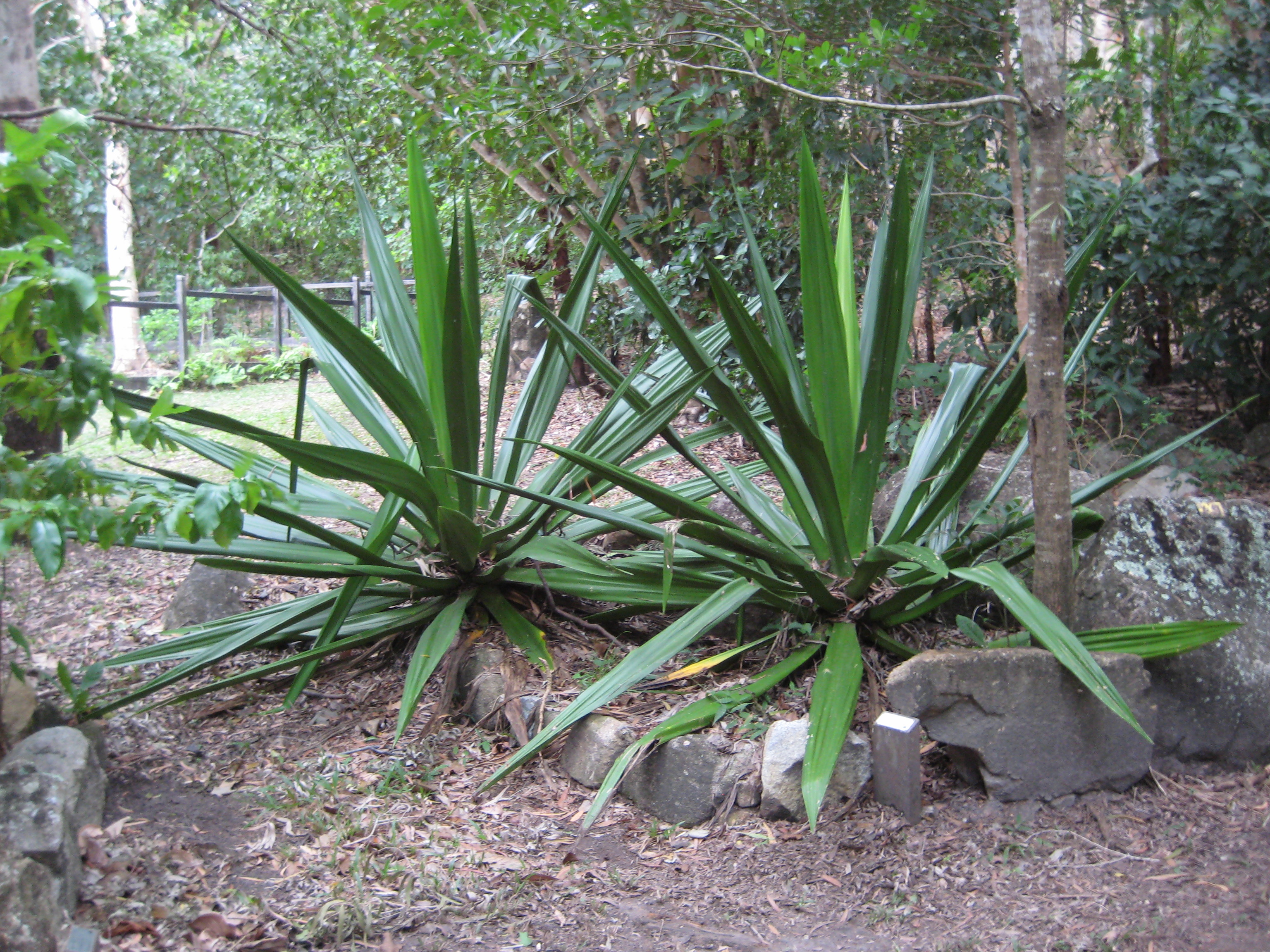 Giant False Agave